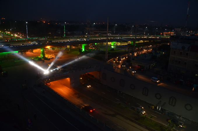 This is another view of Kalma Underpass at night